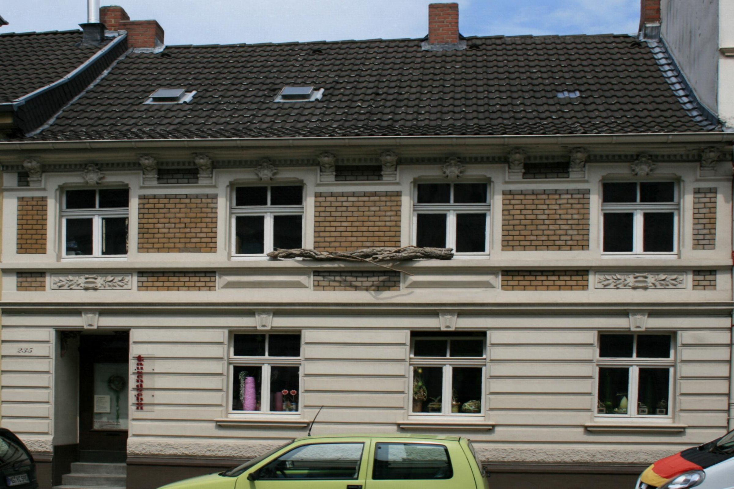 Cultural heritage monument No. H 041 in Mönchengladbach